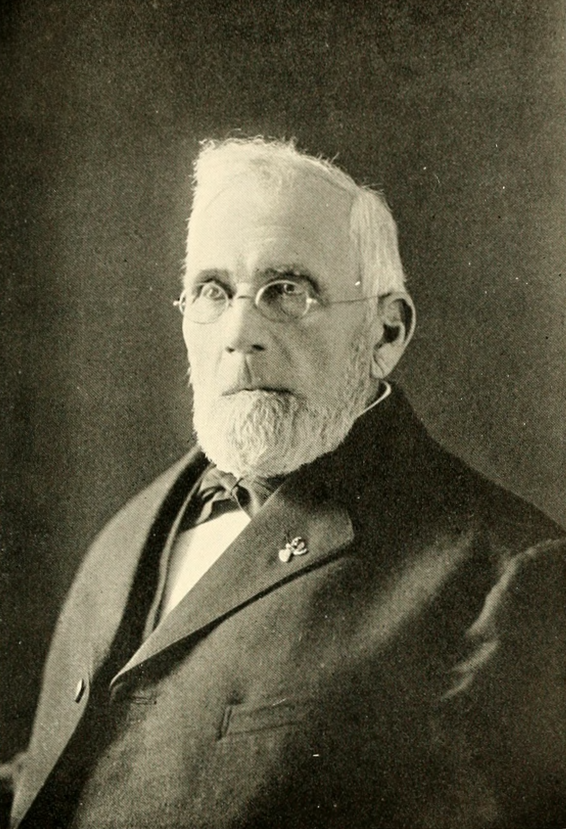 François Xavier Matthieu, 94 years old.